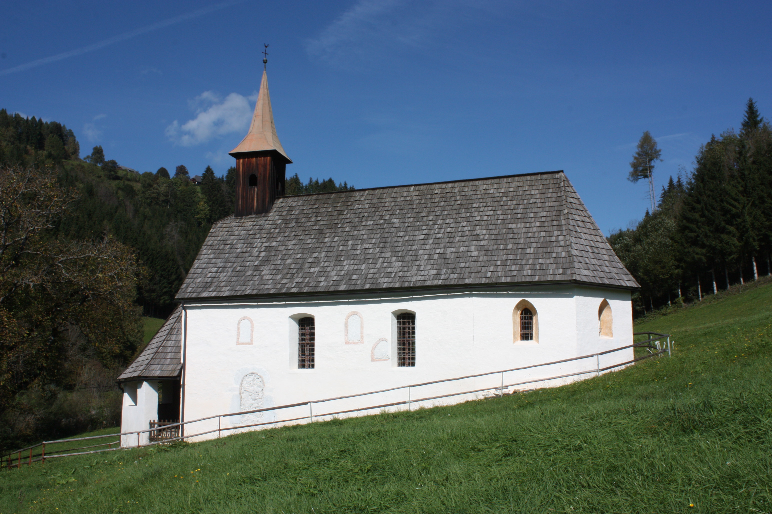 Subsidiary church Saint Rupertus Locality: Staudachhof Community:Friesach